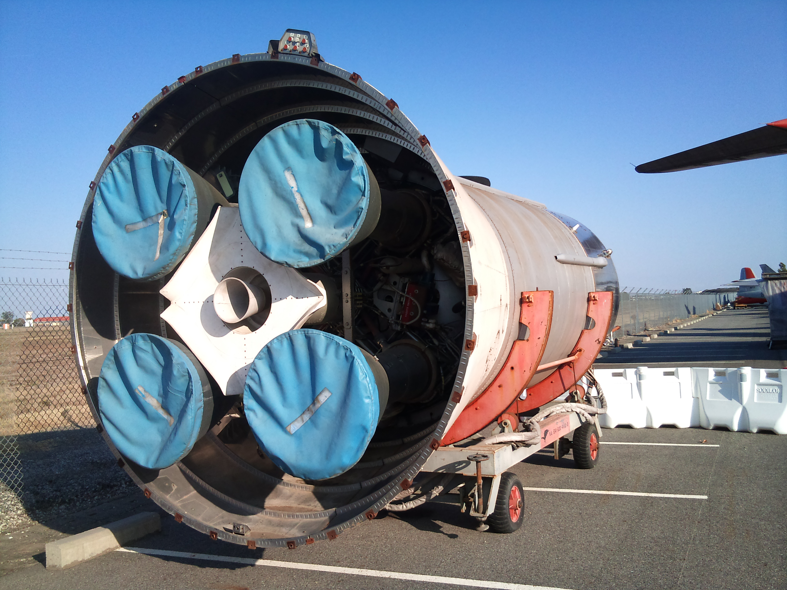 Cora rocket stage as second stage for Europa rocket